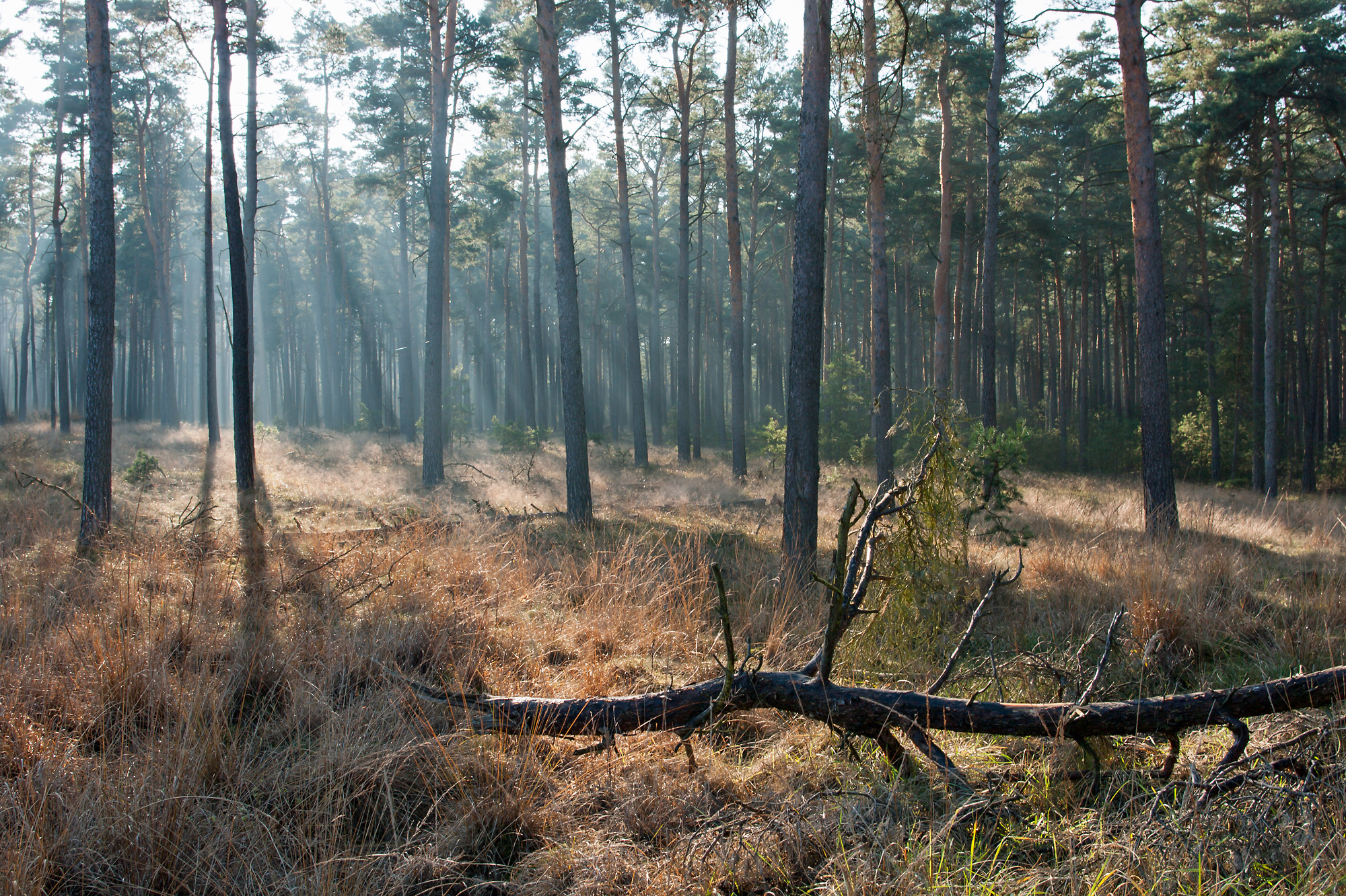 In the pine forest "Gartower Forst" in northern Germany.